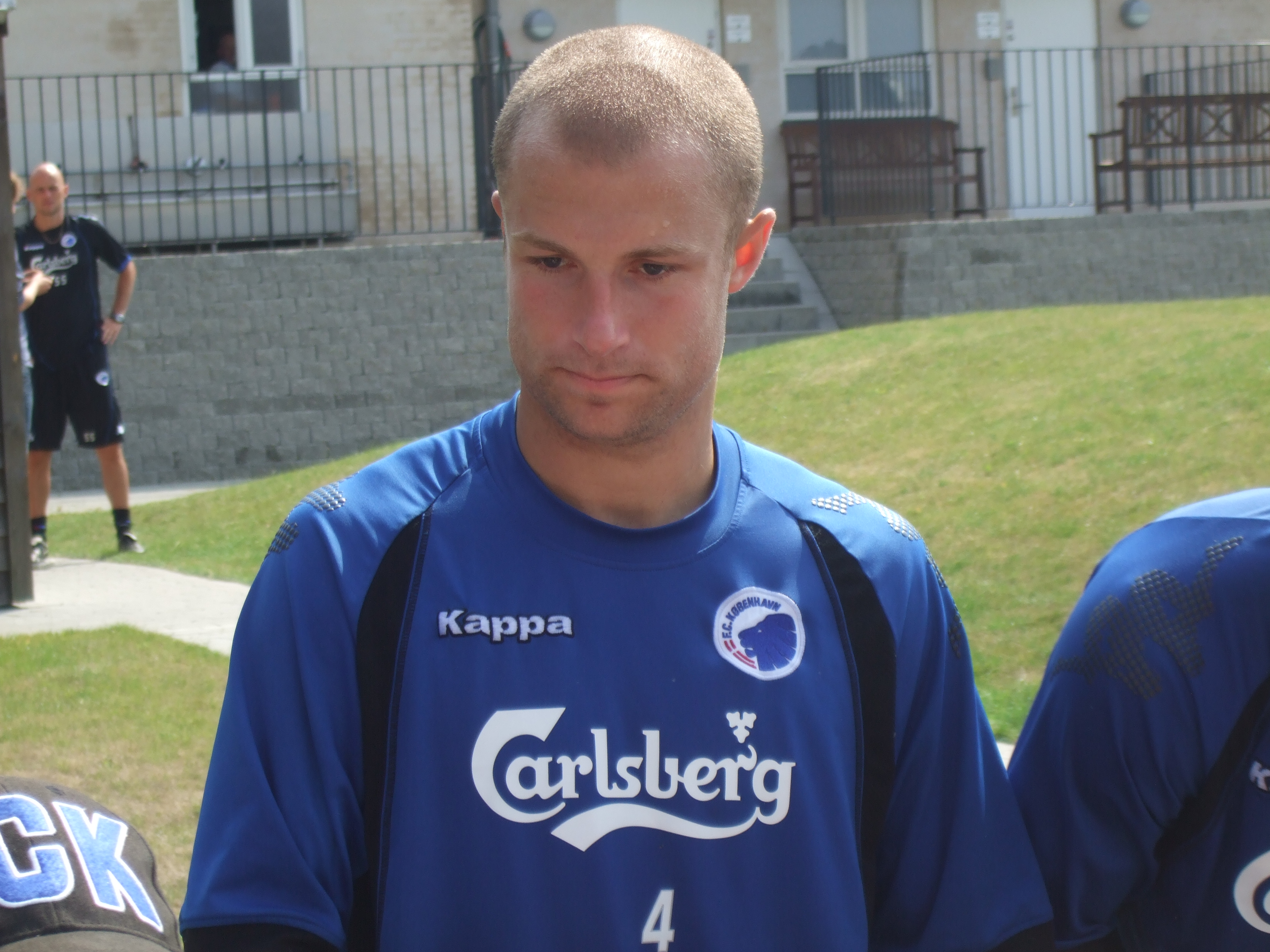 F.C. København midfielder Hjalte Bo Nørregaard signing autographs after practice August 7th 2008. Picture is taken at the FCK training grounds at Peter Bangs Vej.